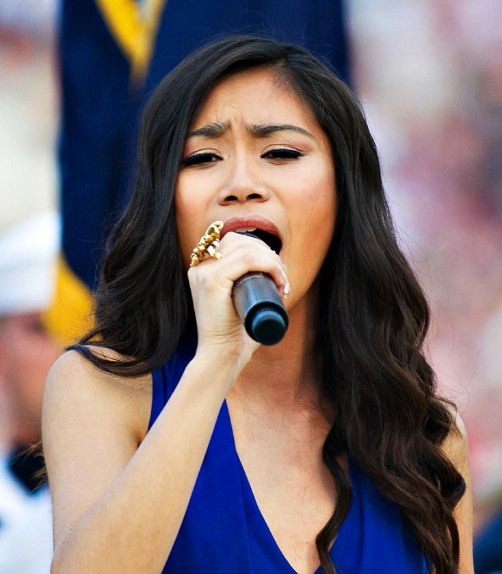 Picture cropped to focus on person